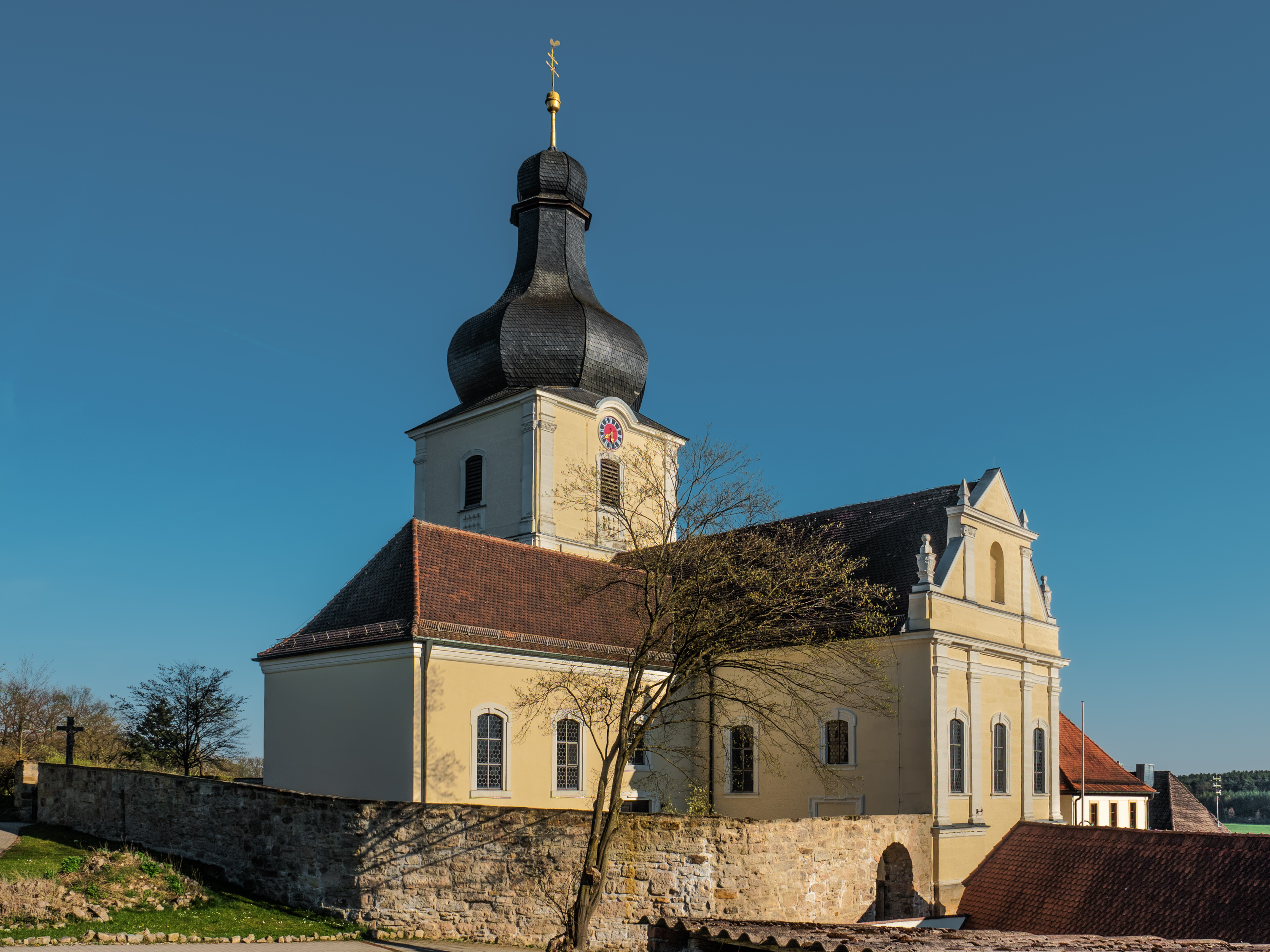 Catholic parish church of St. Leonhard in Zentbechhofen in Hoechstadt an der Aisch